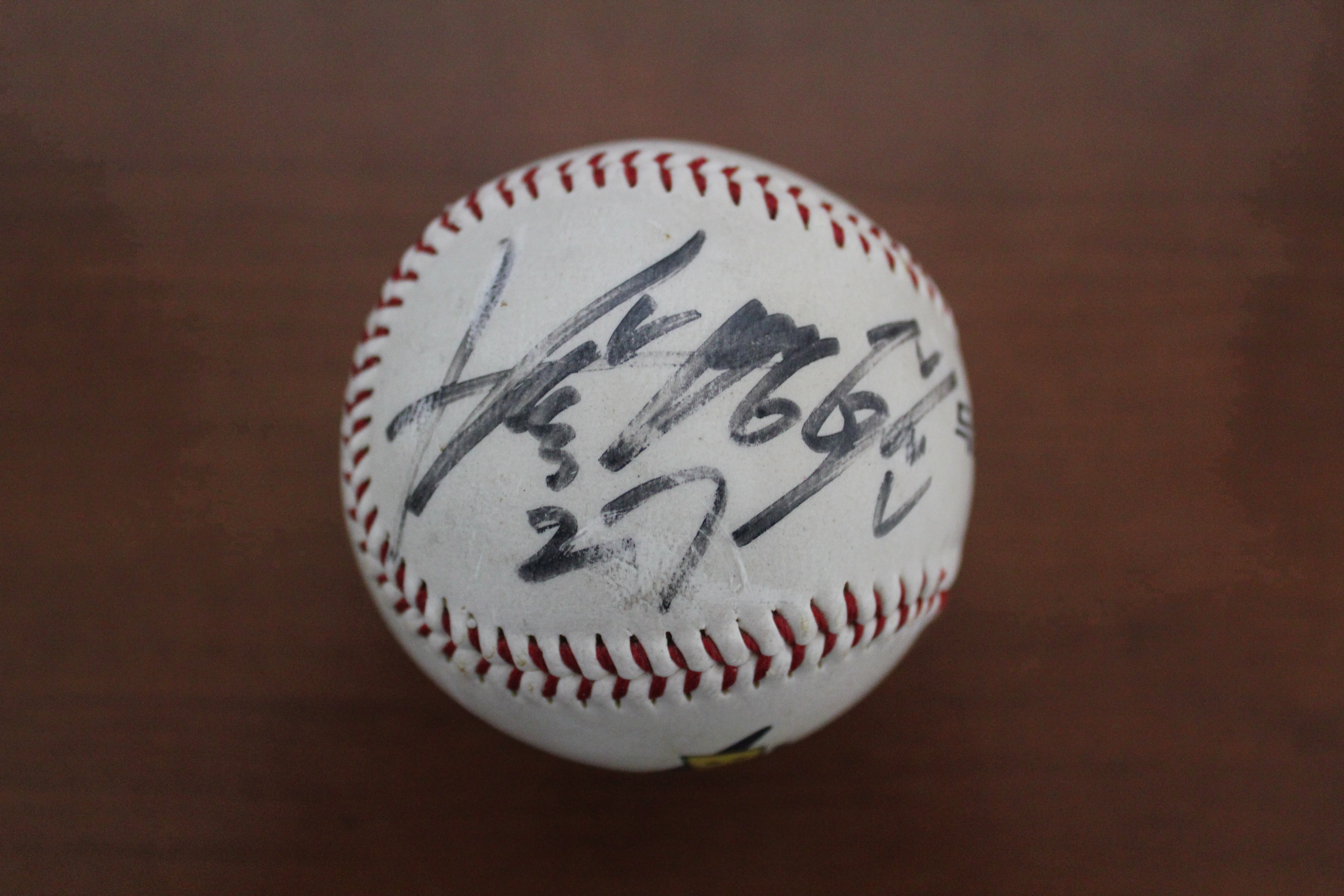 Korean Professional baseballerPark Myung-Hwan's Signature